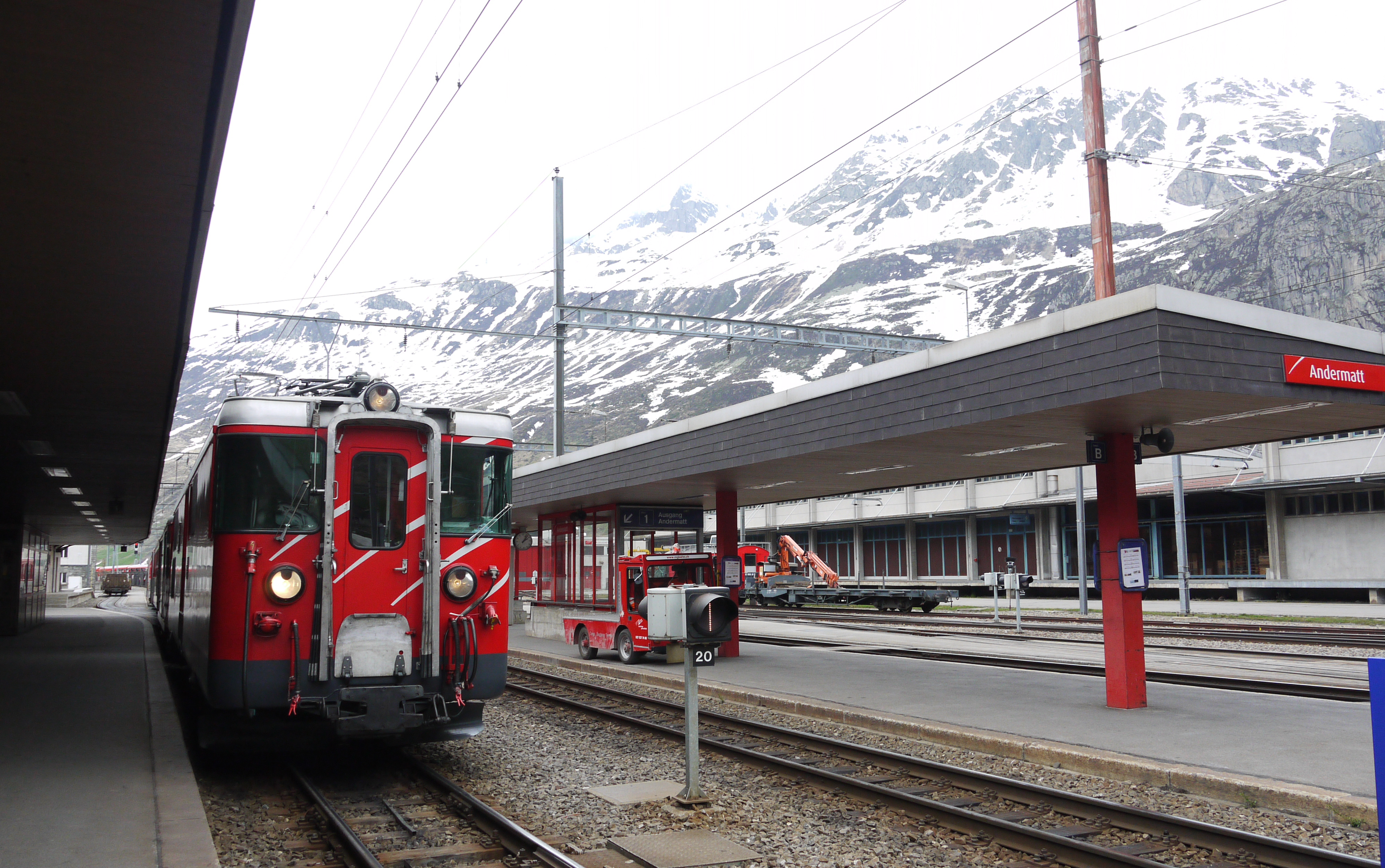 A Matterhorn Gotthard Bahn Deh 4/4 (ex-BVZ) at Andermatt railway station (about 1436m ASL).